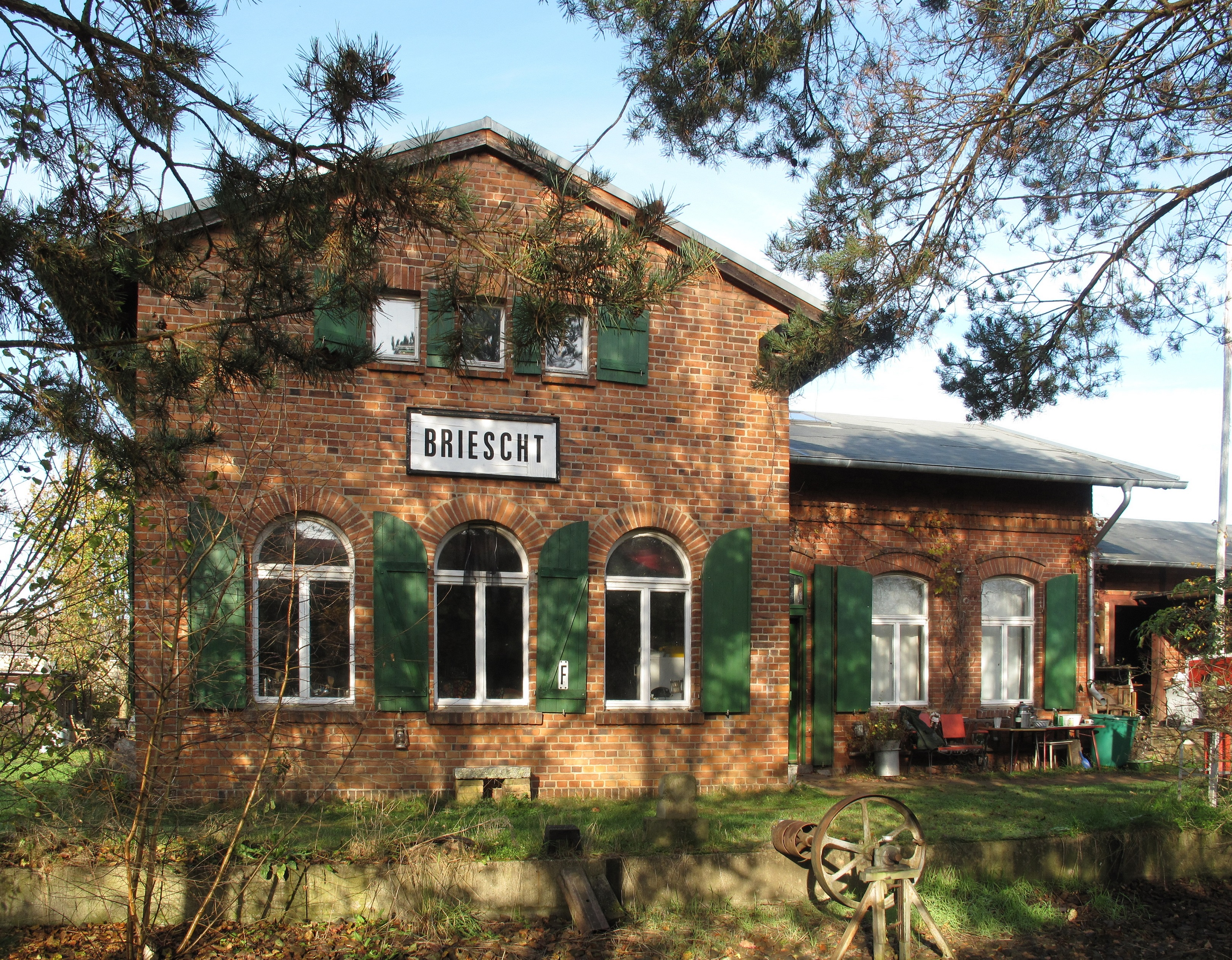 The station Briescht is the former, privatised station of the railway line Niederlausitzer Eisenbahn in the village Briescht, a part of the municipality Tauche in the District Oder-Spree, Brandenburg, Germany. This part of the railway-line was opened in 1901 and disused in 1995.